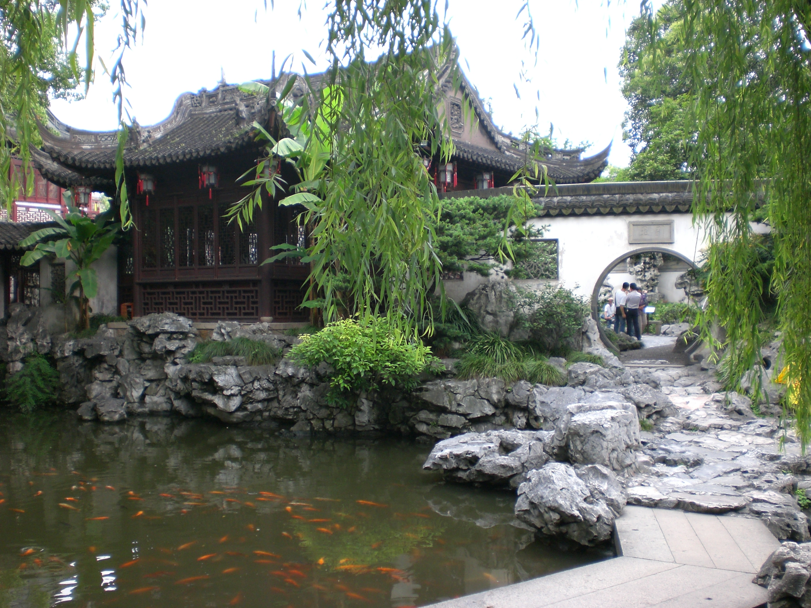 Shanghai, Yuyuan Garden, XVI Century